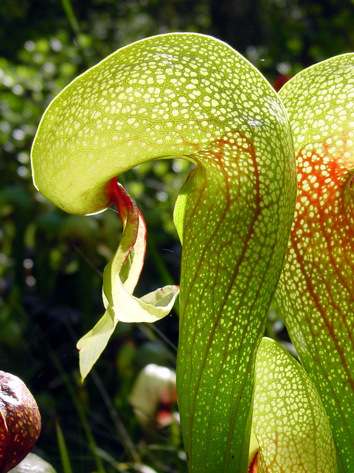 Darlingtonia californica — California pitcher plant. On the "Botanical Trail" at Butterfly Valley Botanical Area (July 7), Sierra Nevada, Plumas County, northern California.